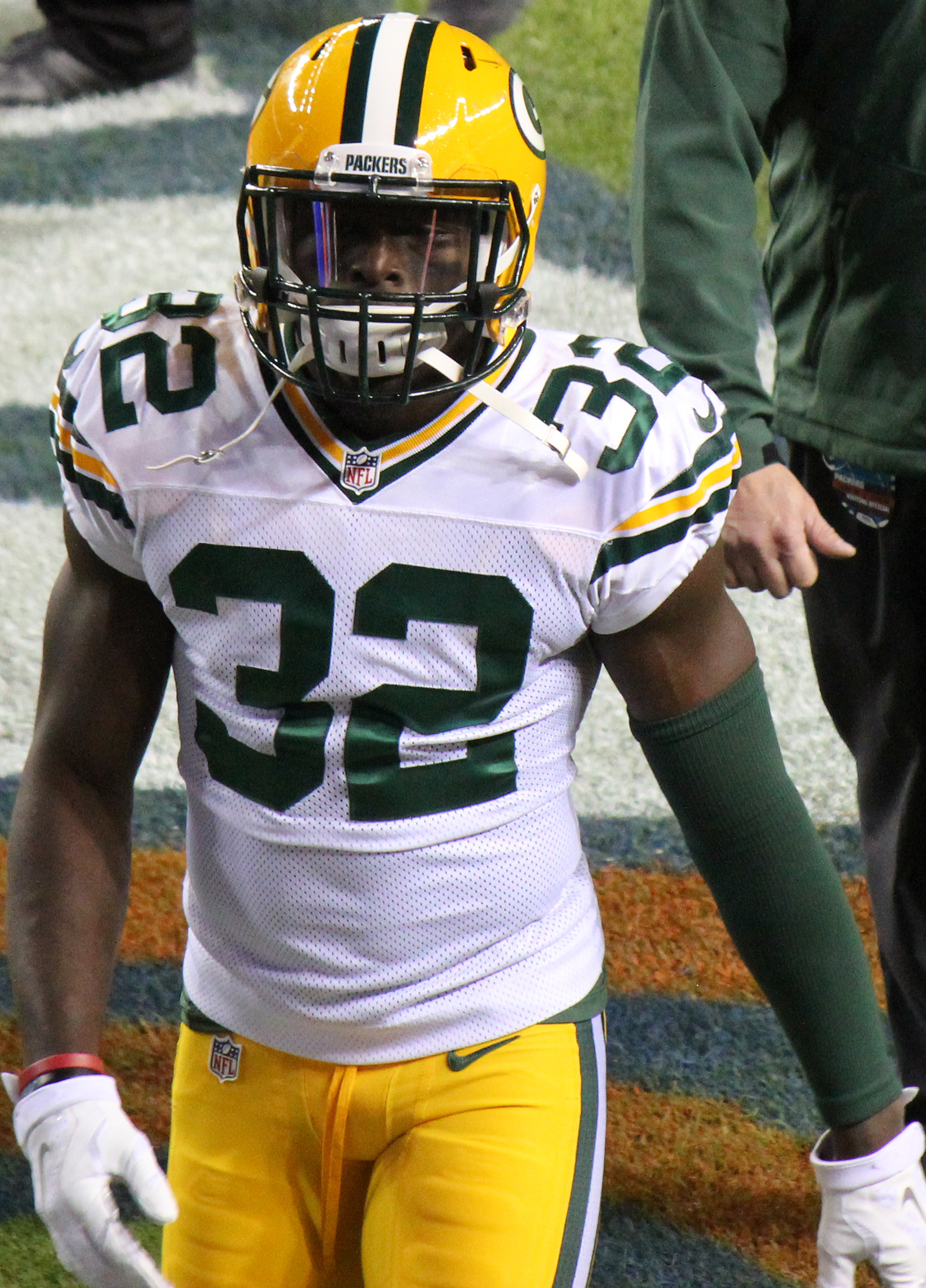 Chris Banjo, a player on the National Football League.